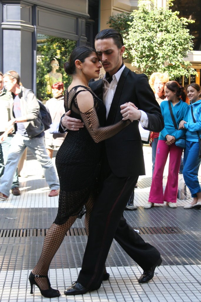 Couple dancing tango